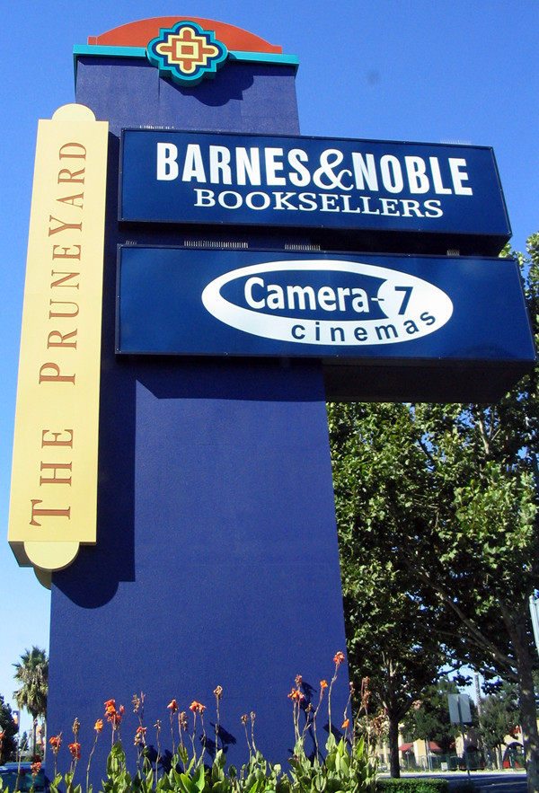 A roadsign sign at the Pruneyard Shopping Center in the city of Campbell.